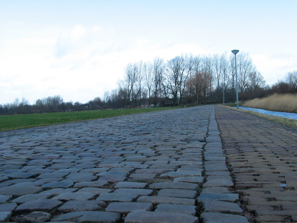 Cobblestones, in Alkmaar The Netherlands.